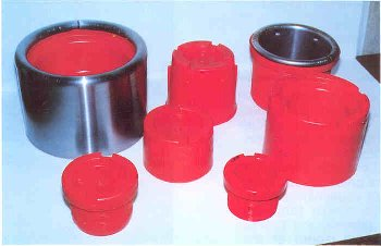 Examples of Thread Protectors